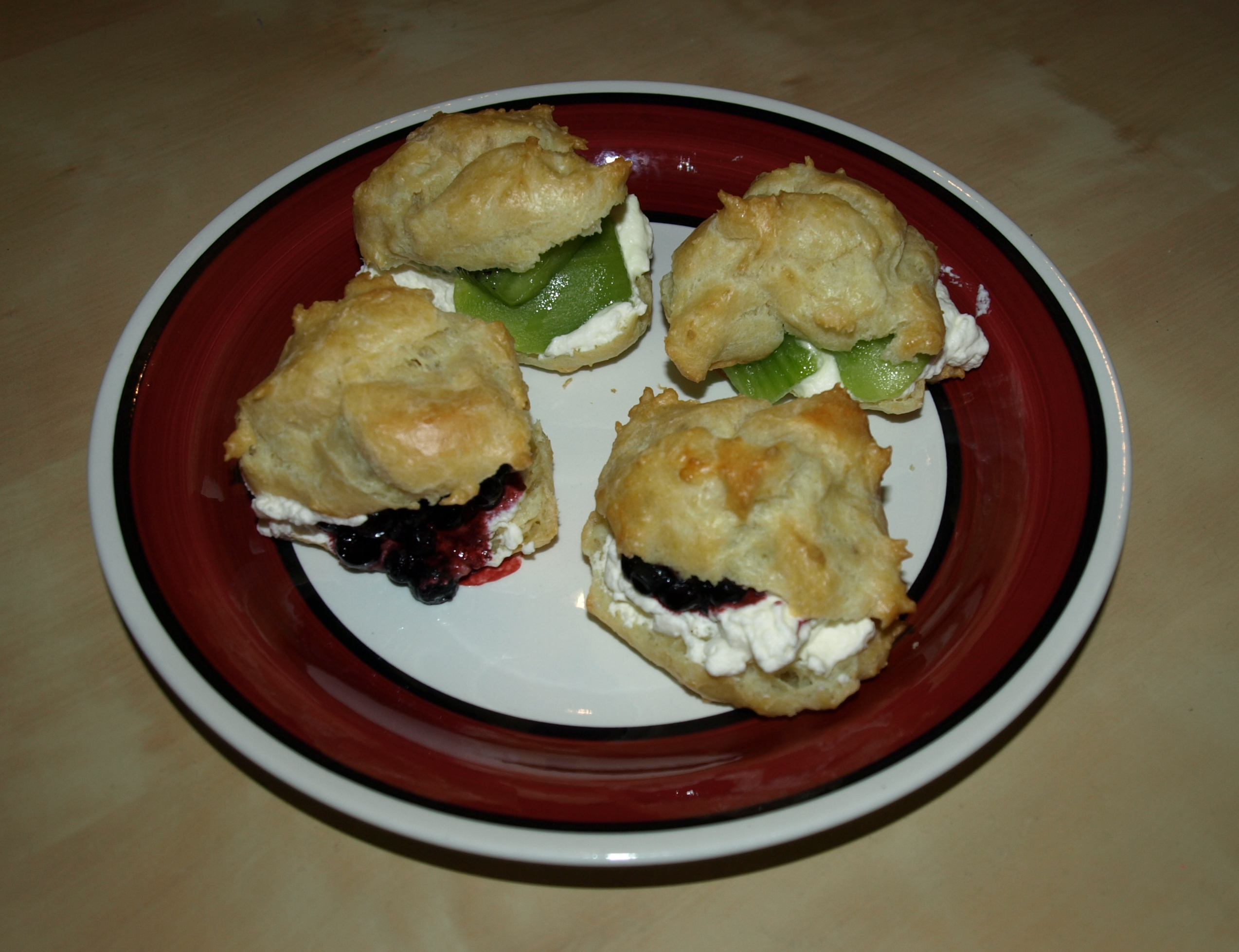 The pastry known as "Petit-chou".